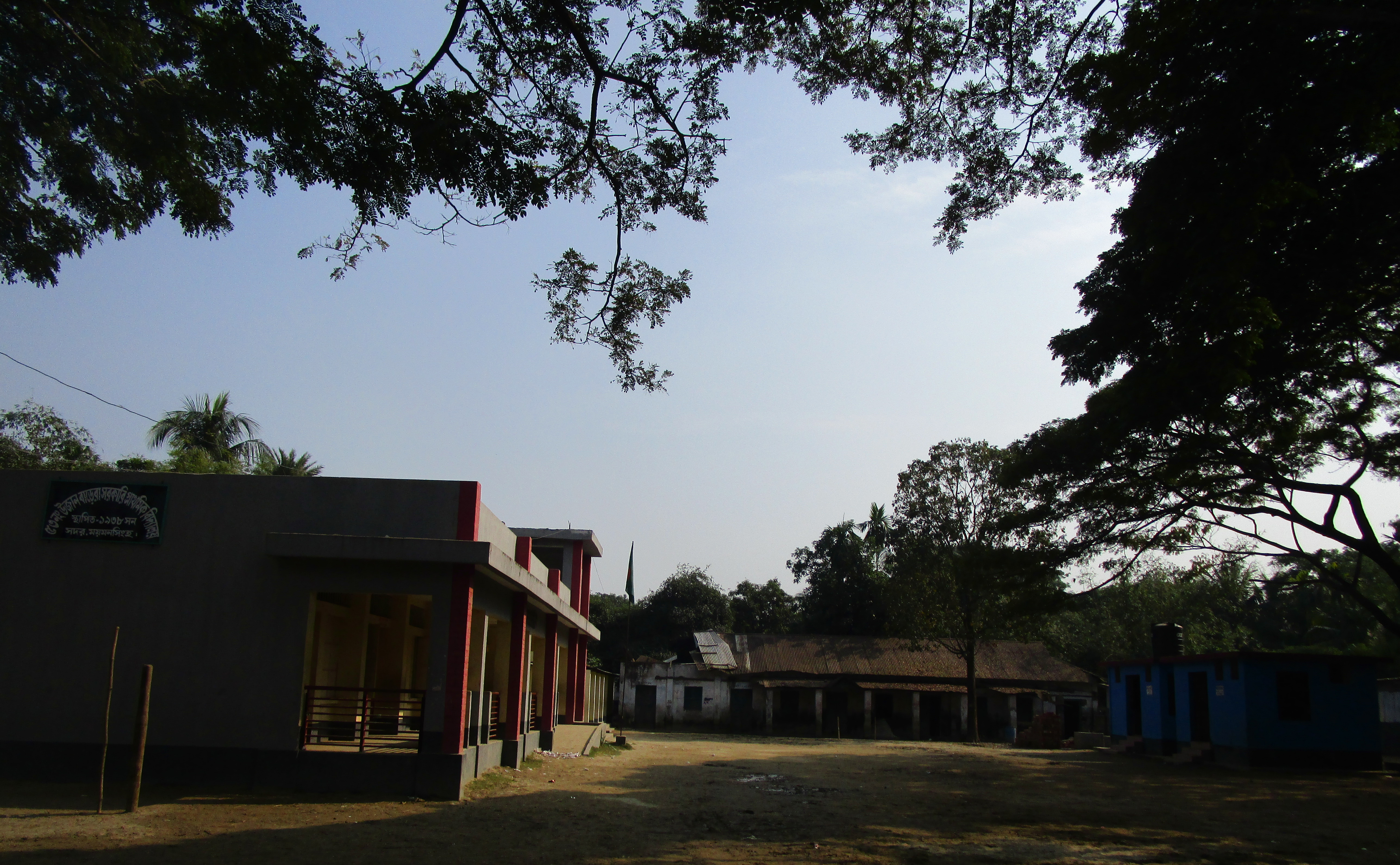 Ujan Barera Govt Primary School at Mymensingh Sadar Upazila.